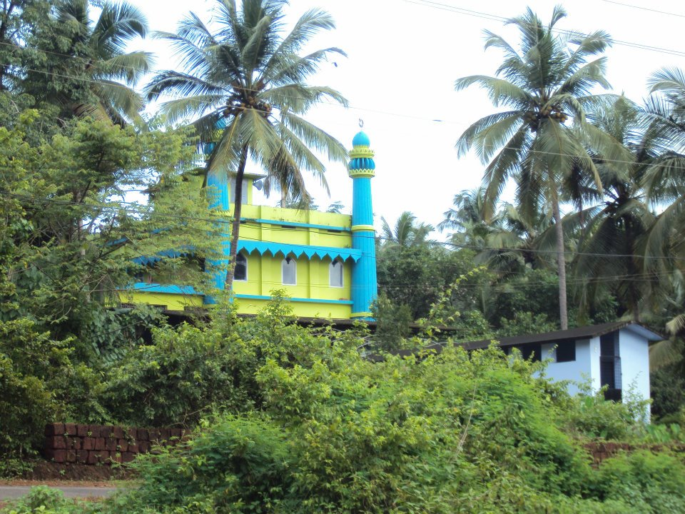 Poocholamad Juma Masjid